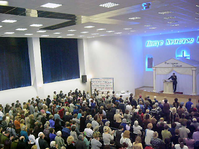 Universal Church of the Kingdom of God worship service in Moscow, Russia.